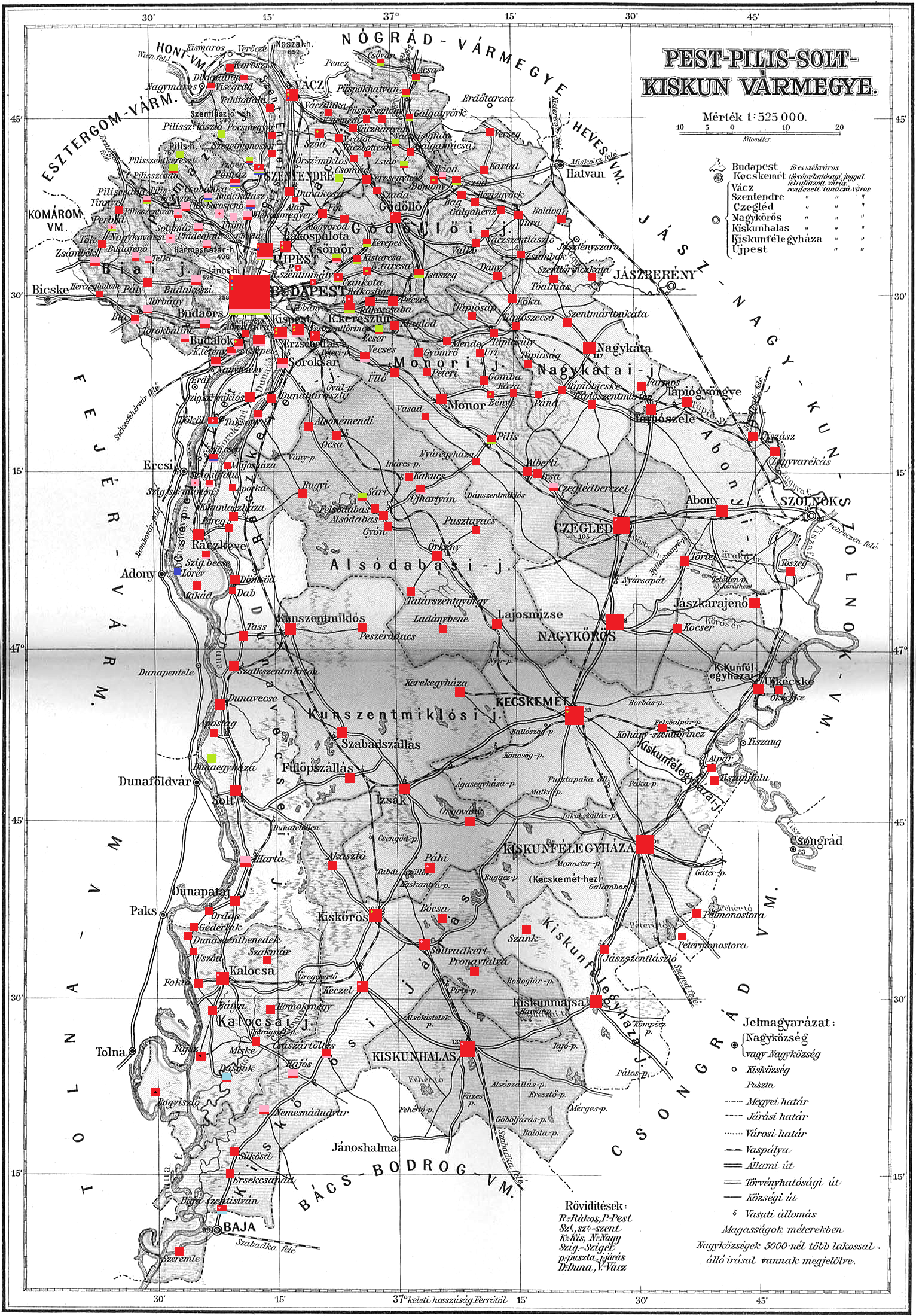 Ethnic map of Pest-Pilis-Solt-Kiskun county according to the data of the 1910 census. Key: red - Hungarians; pink - Germans; light green - Slovaks; light blue - Croatians (with Bunjevci, Dalmatians etc.); dark blue - Serbs; black - Roma; orange - Polish. Coloured dots in a plain rectangle imply the presence of smaller minority populations (generally more than 100 people or 10%). Multicoloured rectangles imply cities and villages with multi-ethnic populations with the order of the stripes following the ethnic composition of the settlement.